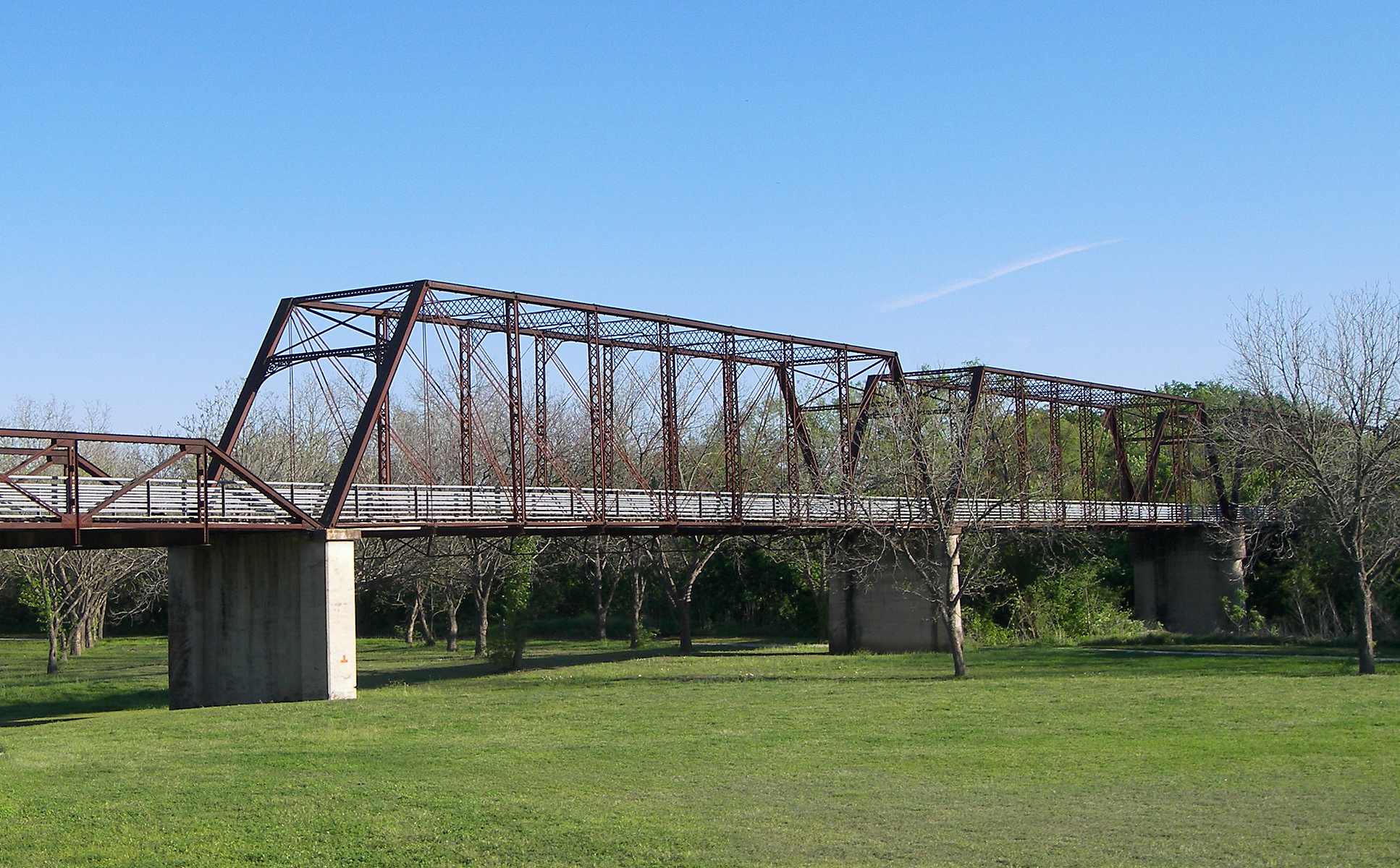 The current bridge at Moore's Crossing located in Travis County, Texas, United States was completed in 1922 and is made from spans of the 1884 Congress Avenue Bridge from Austin. The one-lane bridge formerly carried vehicular traffic on Burleson Road over Onion Creek, but is now a pedestrian bridge.